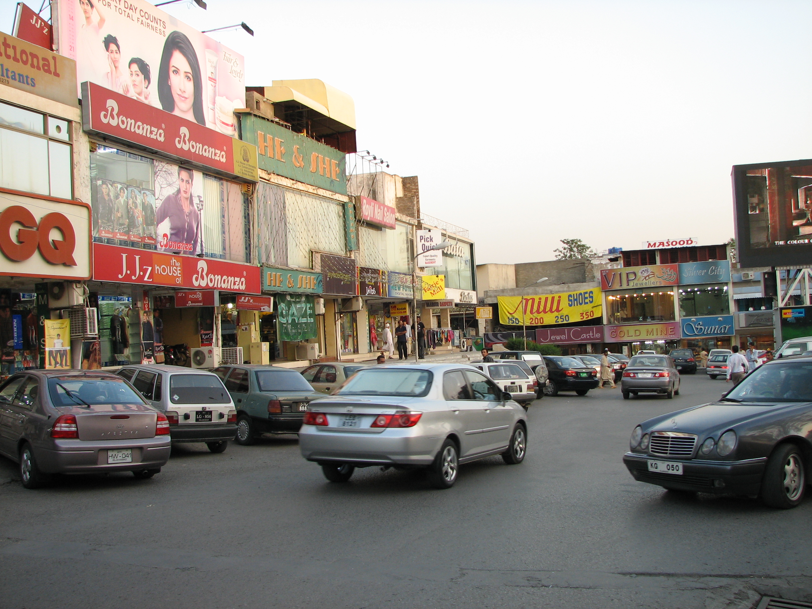 Jinnah Super Market in Islamabad, Pakistan.